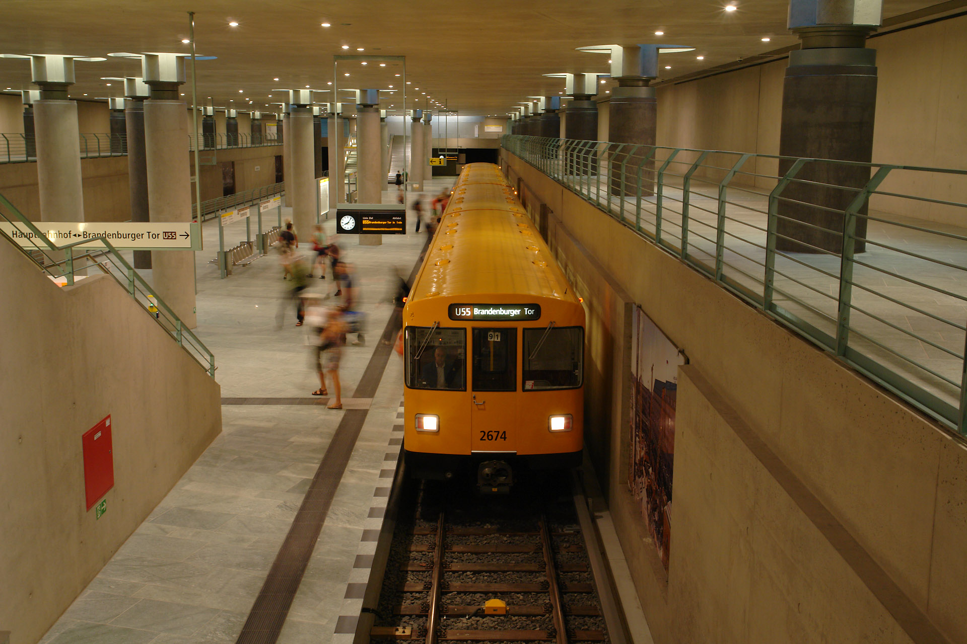 Berlin, Subway stop Bundestag.